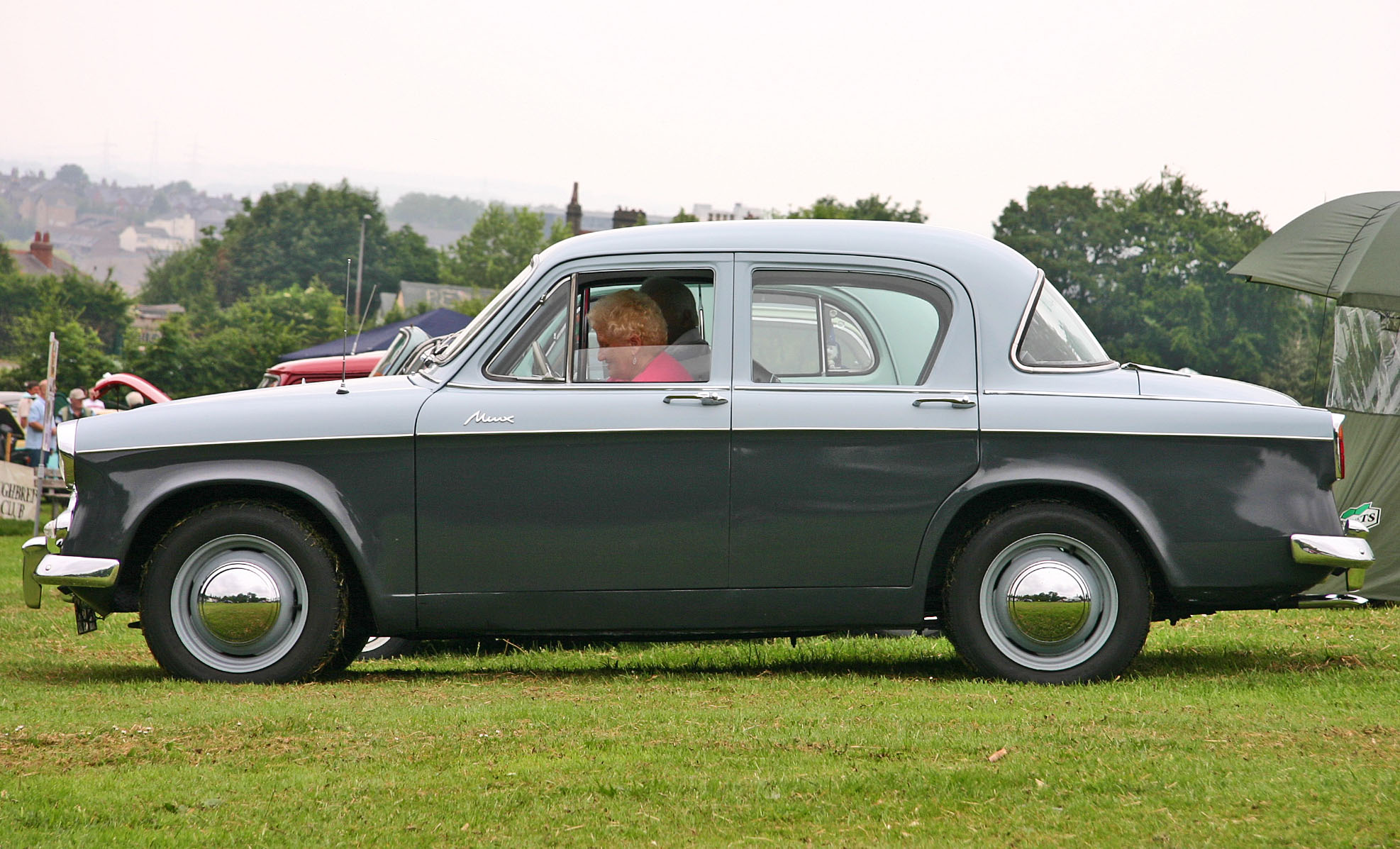 Hillman Minx Series III in side view